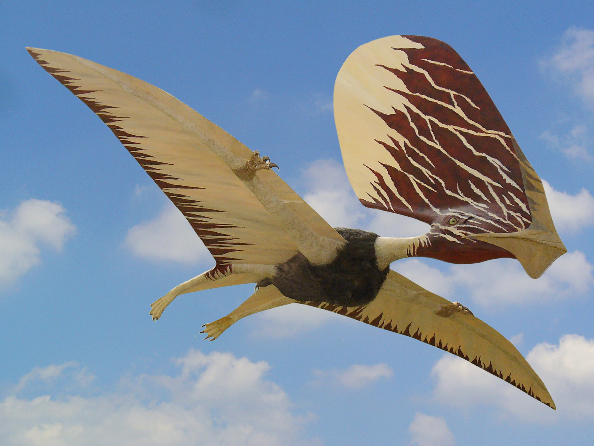 Tupandactylus imperator (Syn. Tapejara imperator), Tapejaridae; Model in life size with a wingspan of 4.27 meters based on fossils from the Lower Cretaceous northeast Brazil; Staatliches Museum für Naturkunde Karlsruhe, Germany, loan from Hessisches Landesmuseum Darmstadt, Germany. Backgroud changed.